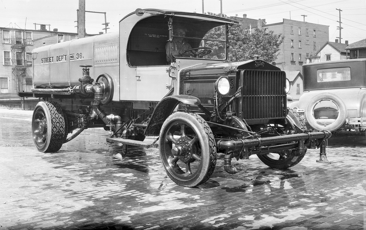 Street flusher (a Sterling truck), Seattle, Washington, U.S., 1926. Item 38183, Department of Streets and Sewers Photographs (Record Series 2625-10), Seattle Municipal Archives.